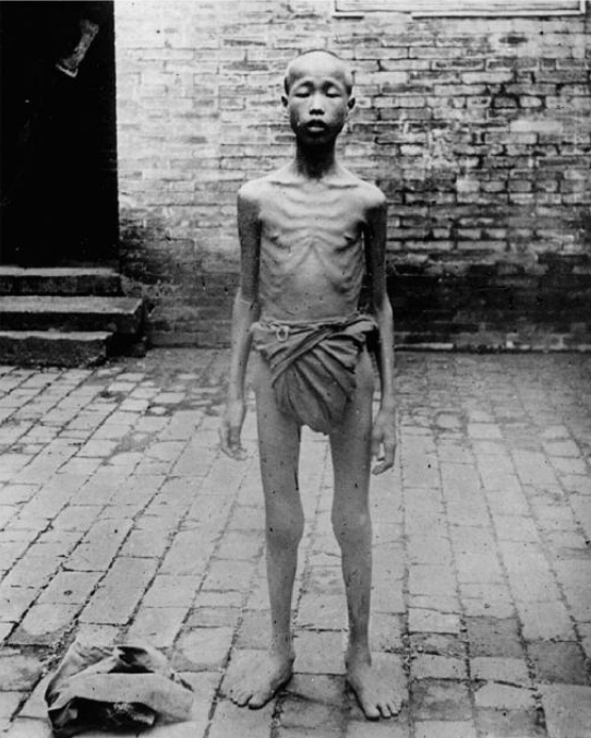 This famine victim in China, approxmately 1907, became a beggar on the street.